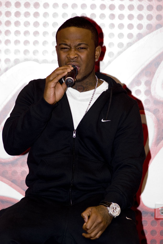 Pleasure P at the WGCI Coca Cola Lounge, Chicago, IL, USA